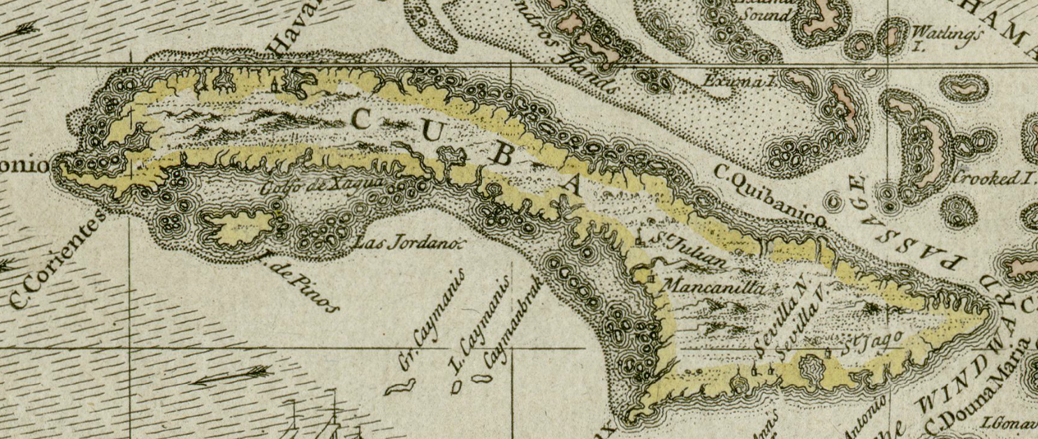 This is a section of a map that is part of the Darlington map collection housed in the Archives Service Center, University Library System, University of Pittsburgh, [1] Pittsburgh, PA US The original map from which this portion was taken can be found here.